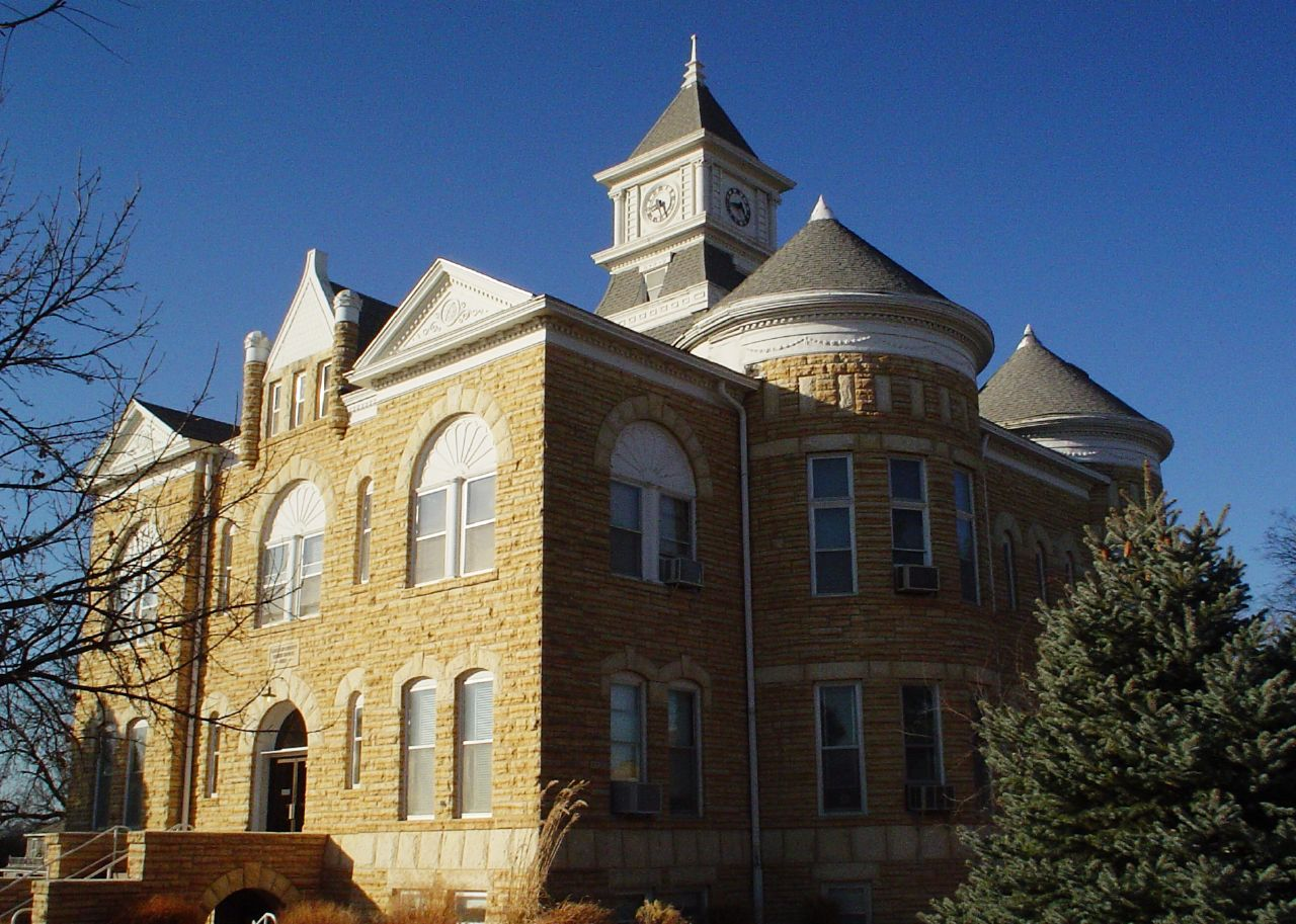 The Lincoln County Courthouse in Lincoln Center, Kansas, was erected in 1899. It is a classic example of Post Rock, or Limestone, architecture that featured the ubiquitous stone.